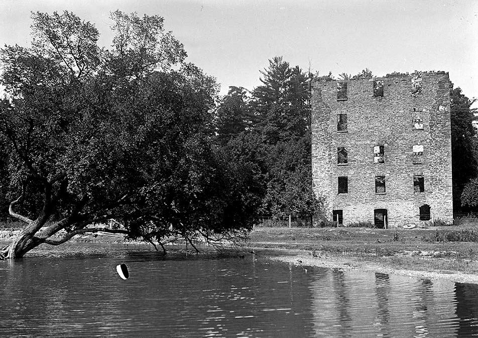 View of ca. 1850 Gamble Grist Mill ruins in 1913